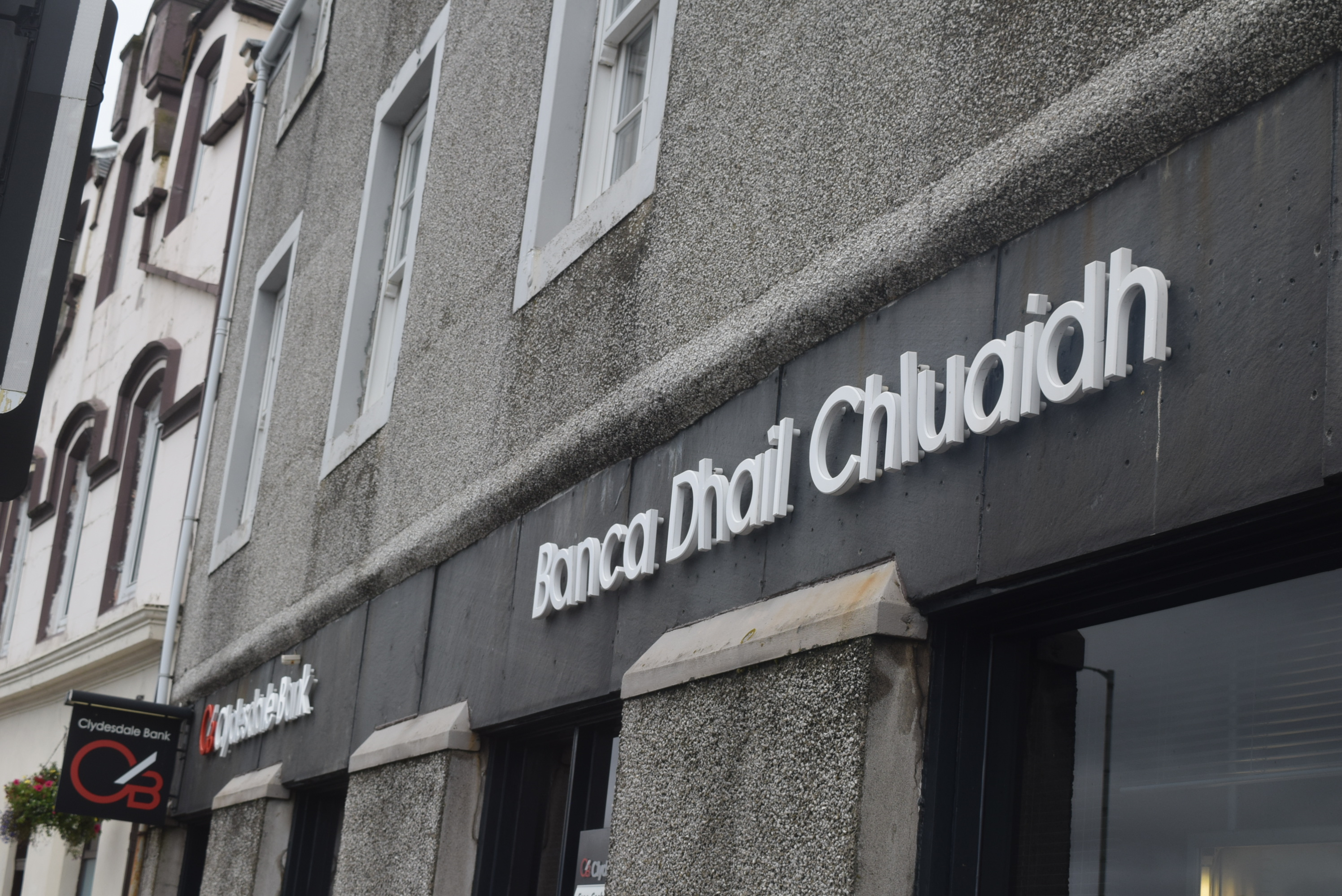 Did you know the Gaelic for Clydesdale Bank, well you do now